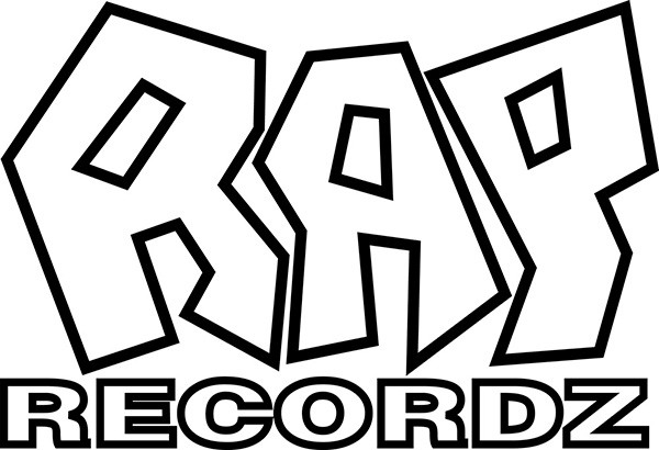 Logo of RAP Recordz, launched in 1997